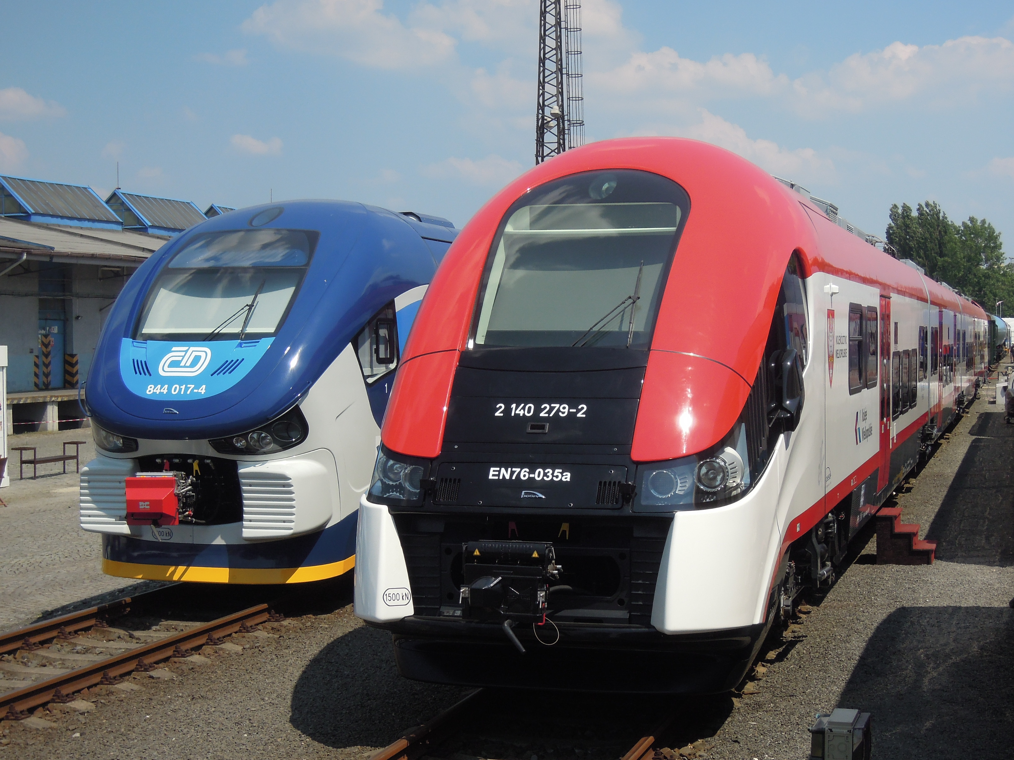 Electric multiple unit PESA ELF and diesel multiple unit PESA Link II of PESA SA manufacturer at the Czech Raildays 2013 trade fair in Ostrava, Czech Republic